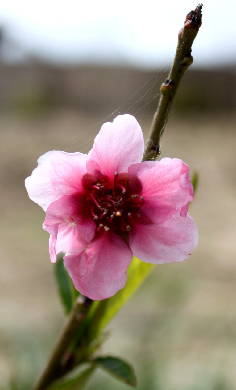 Цветок персикового дерева (место сьёмки Азербайджан,посёлок Пиршаги.